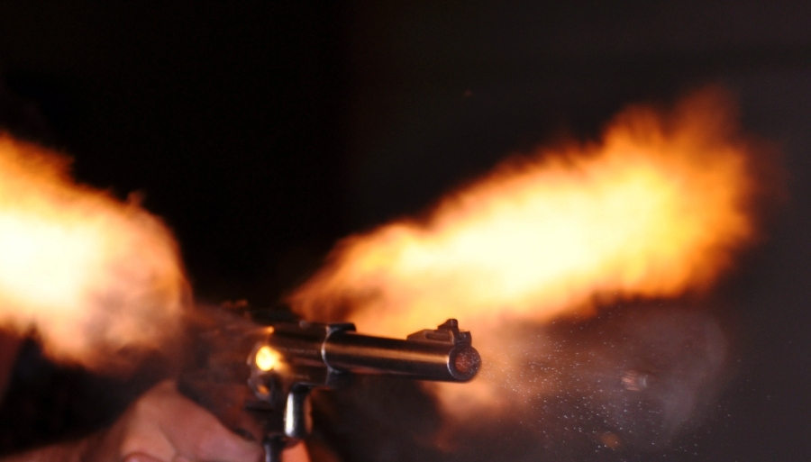 Ruger Super Redhawk. 44 Magnum revolver photographed with a high-speed air-gap flash. On the picture, there is a backward evacuation of gases (just after the explosion of the contents of the cartridge), and also a particle jet (lead microparticles and other residues ejected by the mouth of the barrel)